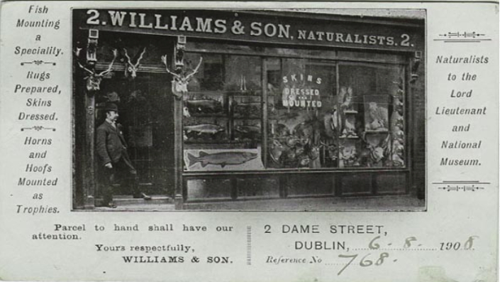 William & Son, Naturalists, Dublin, 1908 (advertising postcard.